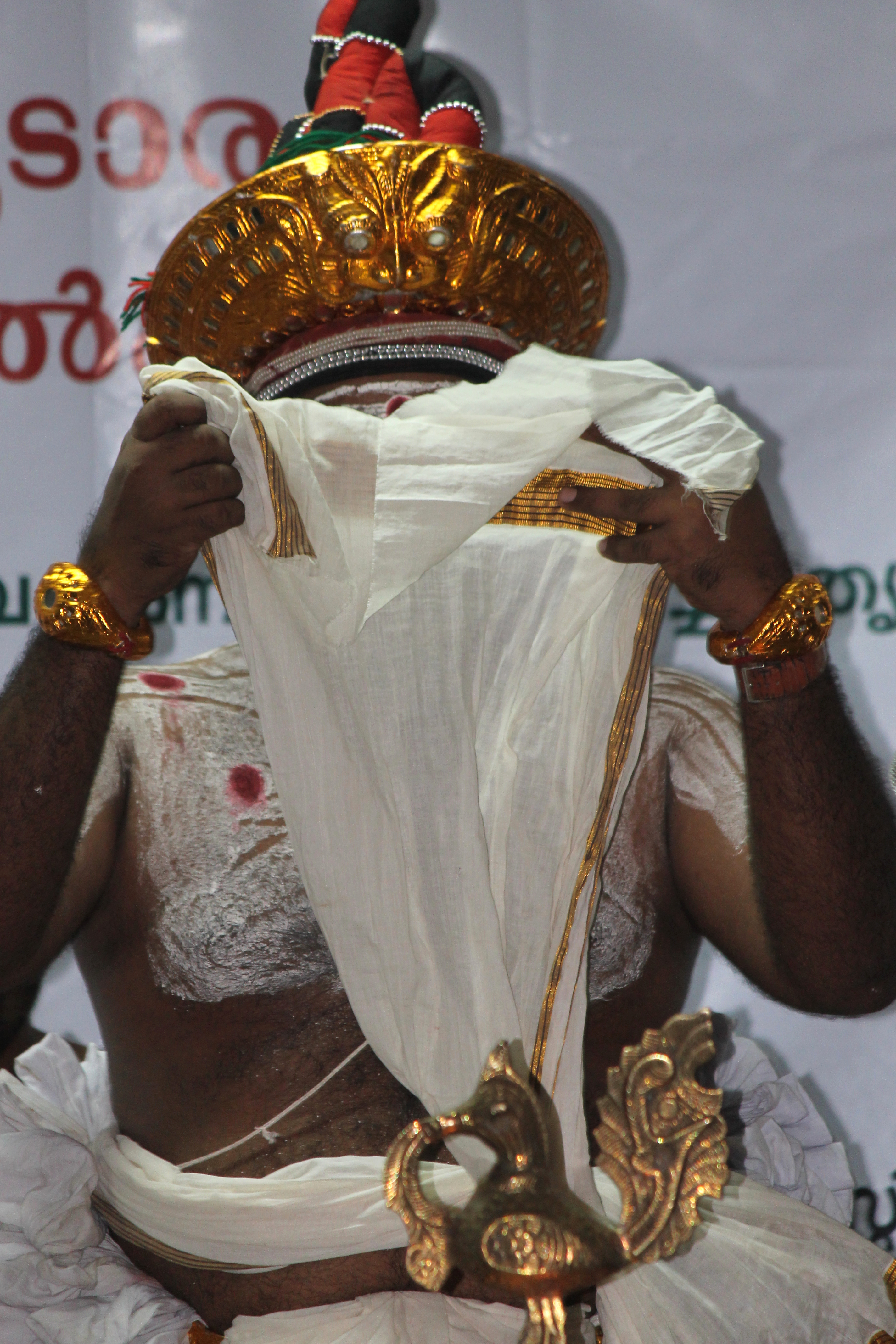 Part of Peedika, Chakyarkooth